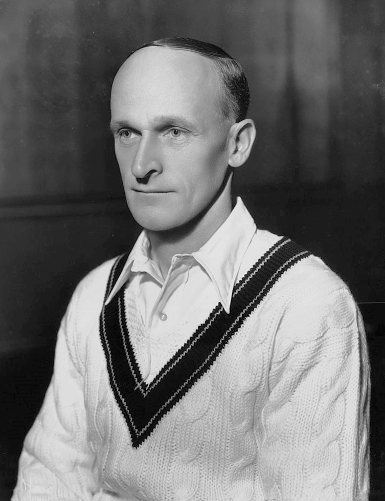 Australian cricketer Clarie Grimmett, Clarence Victor Grimmett (1891 - 1980).